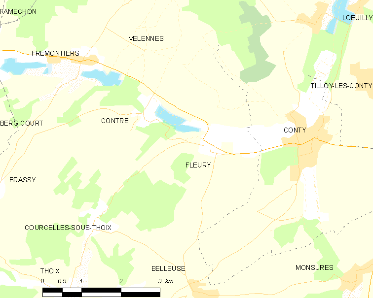 Map of French municipality Fleury